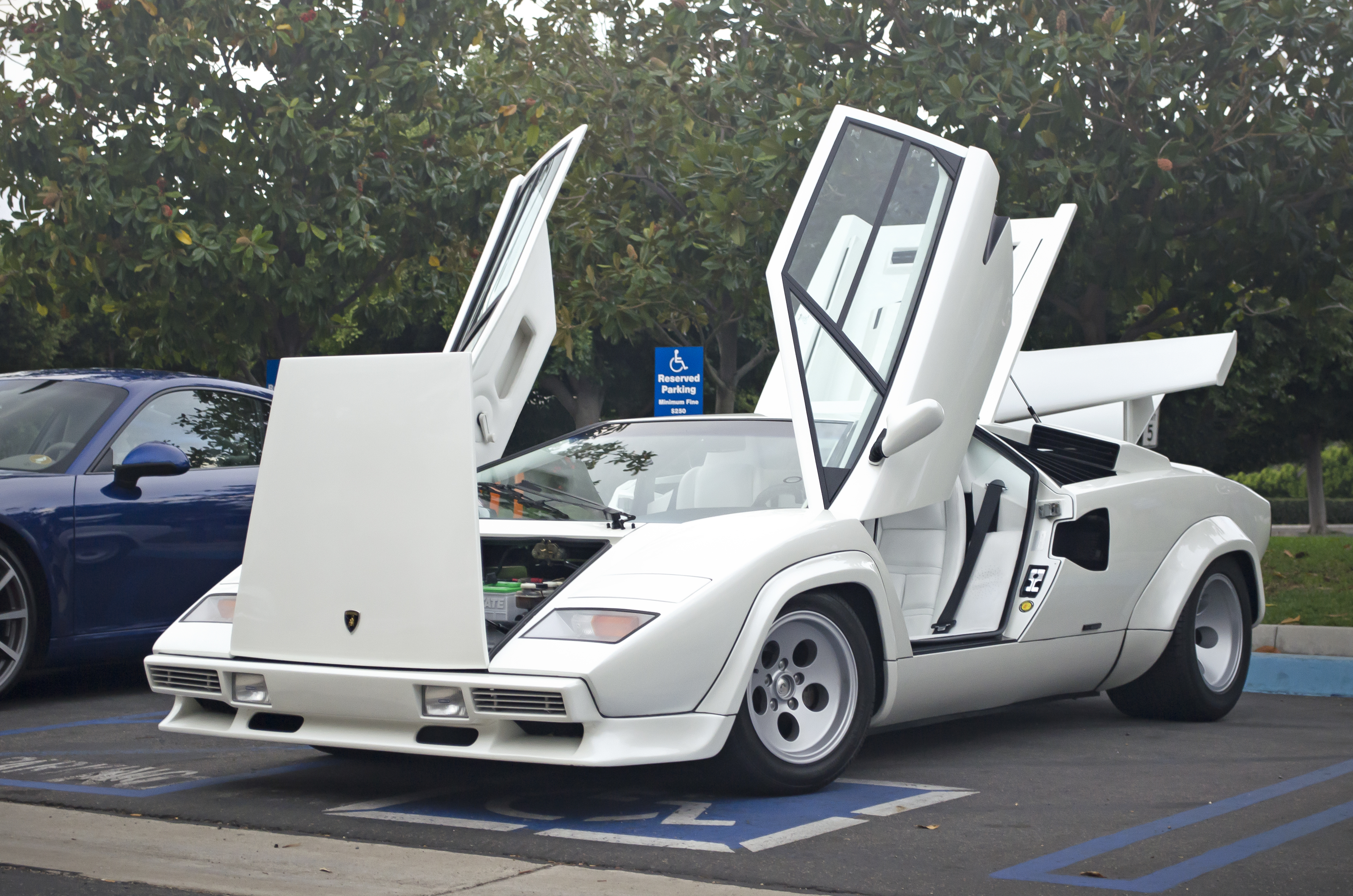 White Lamborghini Countach